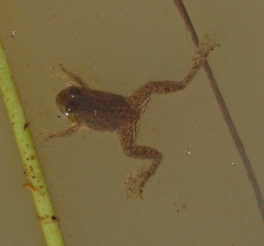 Occidozyga lima, at rice field, Darmaga, Bogor, West Java, Indonesia